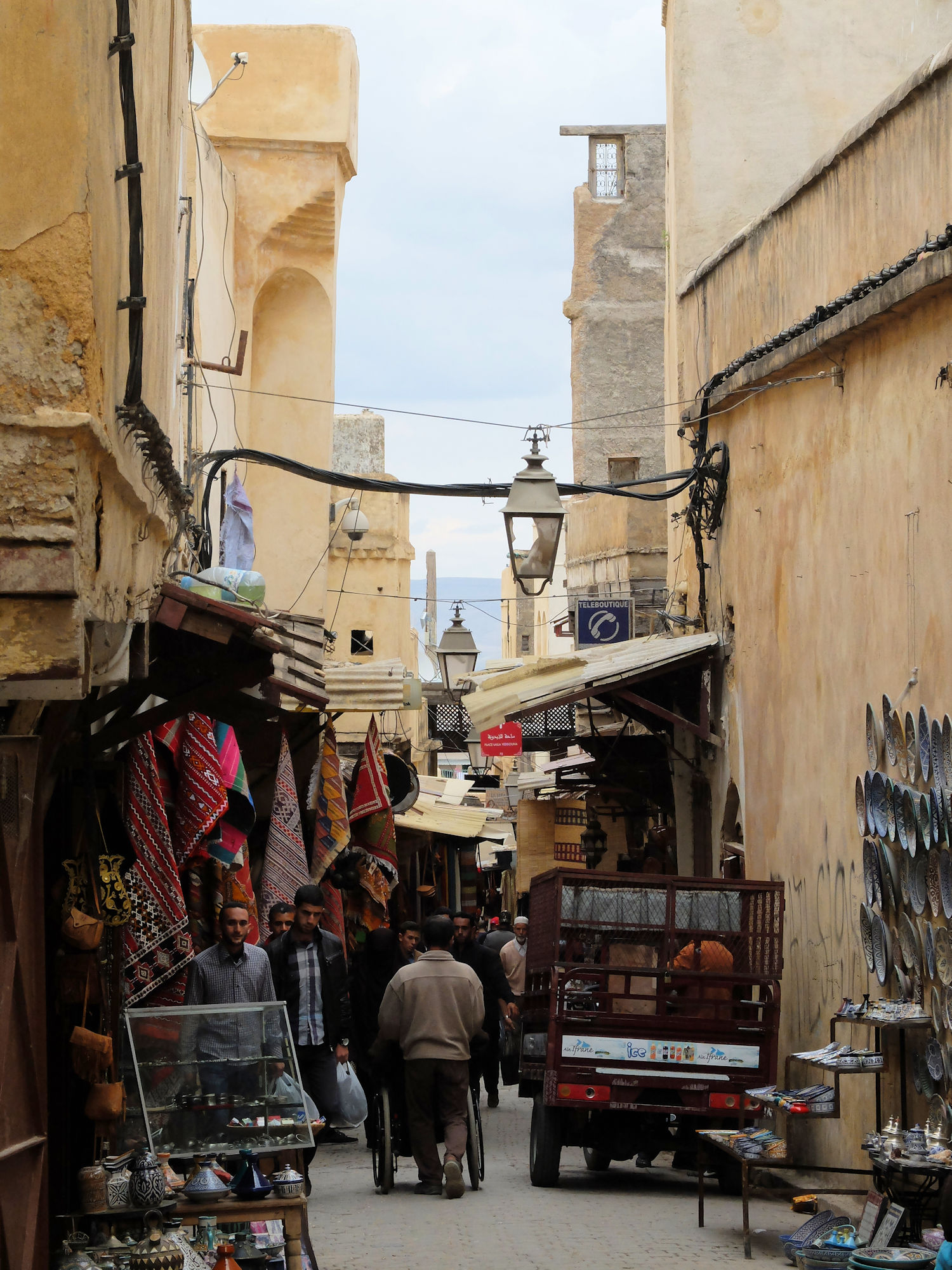 Tala'a Kbira, the main avenue and souq street of Fes el-Bali.